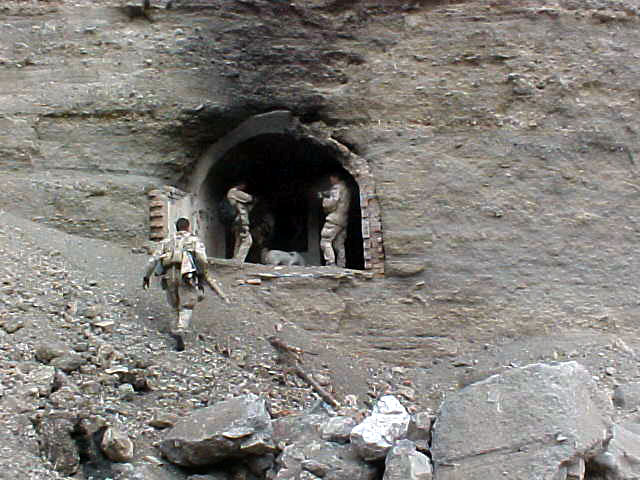 020114-N-8242C-010 During a Sensitive Site Exploitation (SSE) mission, U.S. Navy SEALs (SEa, Air, Land) explore the entrance to one of 70 caves they discovered in Zhawar Kili area. Used by Al Qaeda and Taliban forces, the caves and other above-ground complexes were subsequently destroyed either by Navy Explosive Ordnance Disposal (EOD) personnel or through air strikes called in by the SEALs. Navy special operations forces are conducting missions in Afghanistan in support of Operation Enduring Freedom. Credit photo to Official U.S. Navy photo. FOR THIS PHOTO DO NOT CREDIT PHOTOGRAPHER. Photo cleared for public release by LCDR Darryn James, USN, Naval Special Warfare Command, Public Affairs Officer.